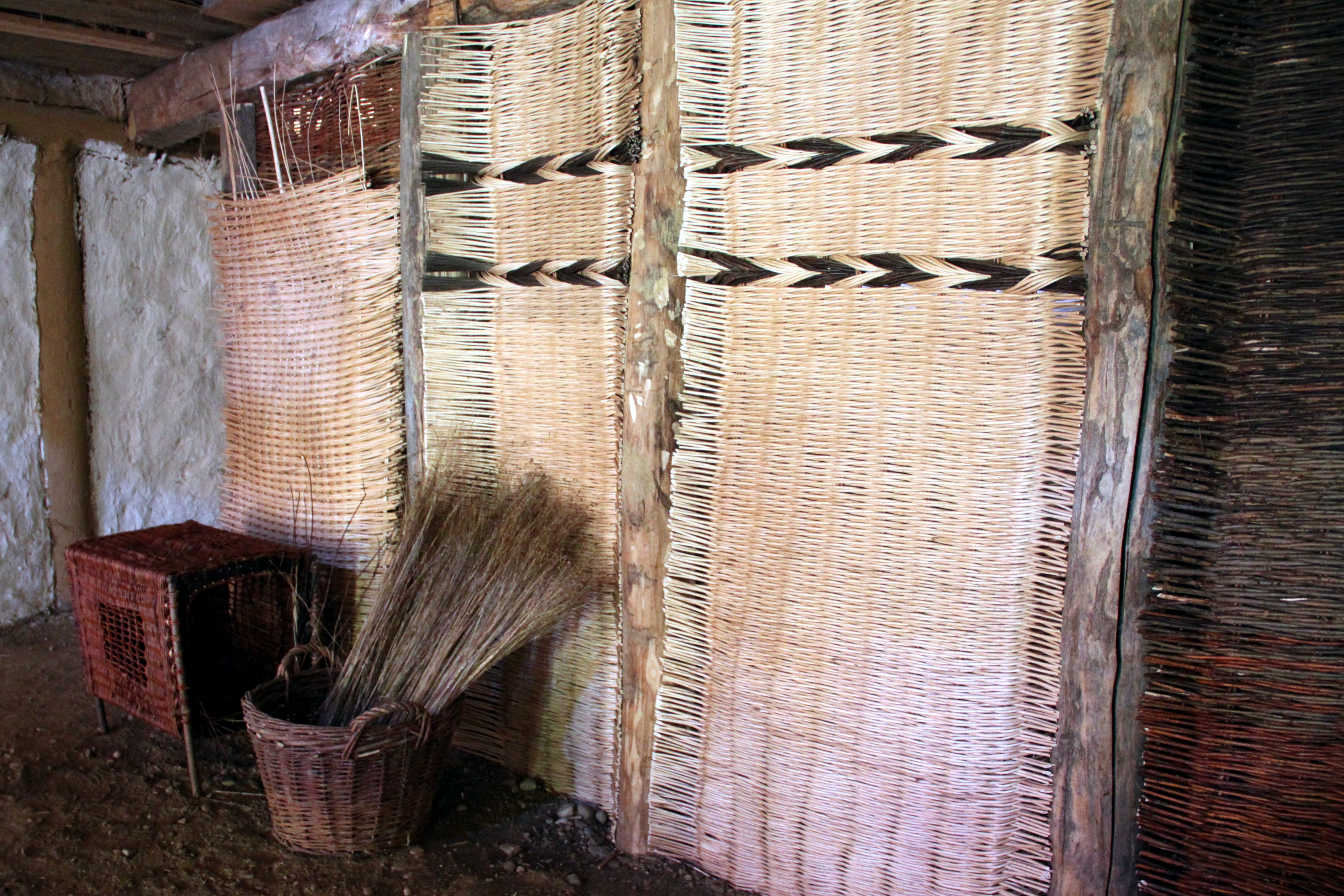 Bajuwarenhof Kirchheim: wickerwork wall with various designs in the longhouse hall.